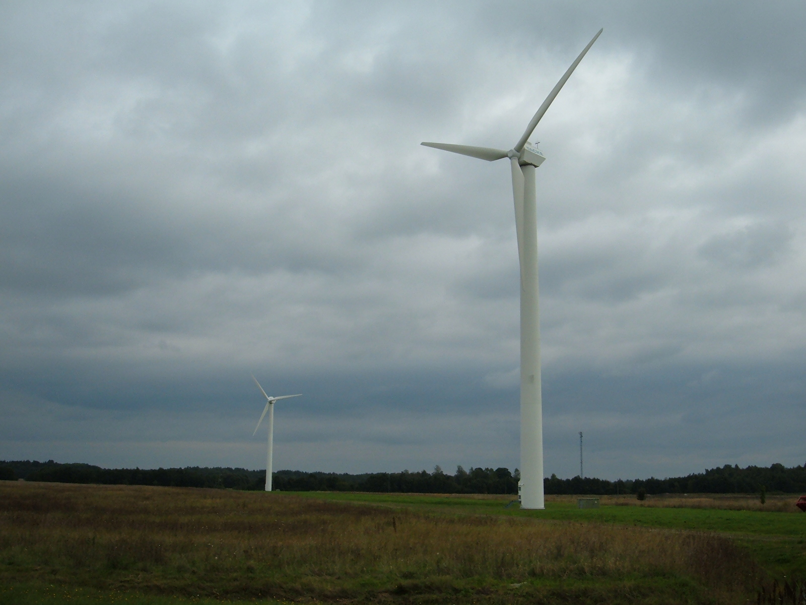 Wind farm near Ainaži, Latvia